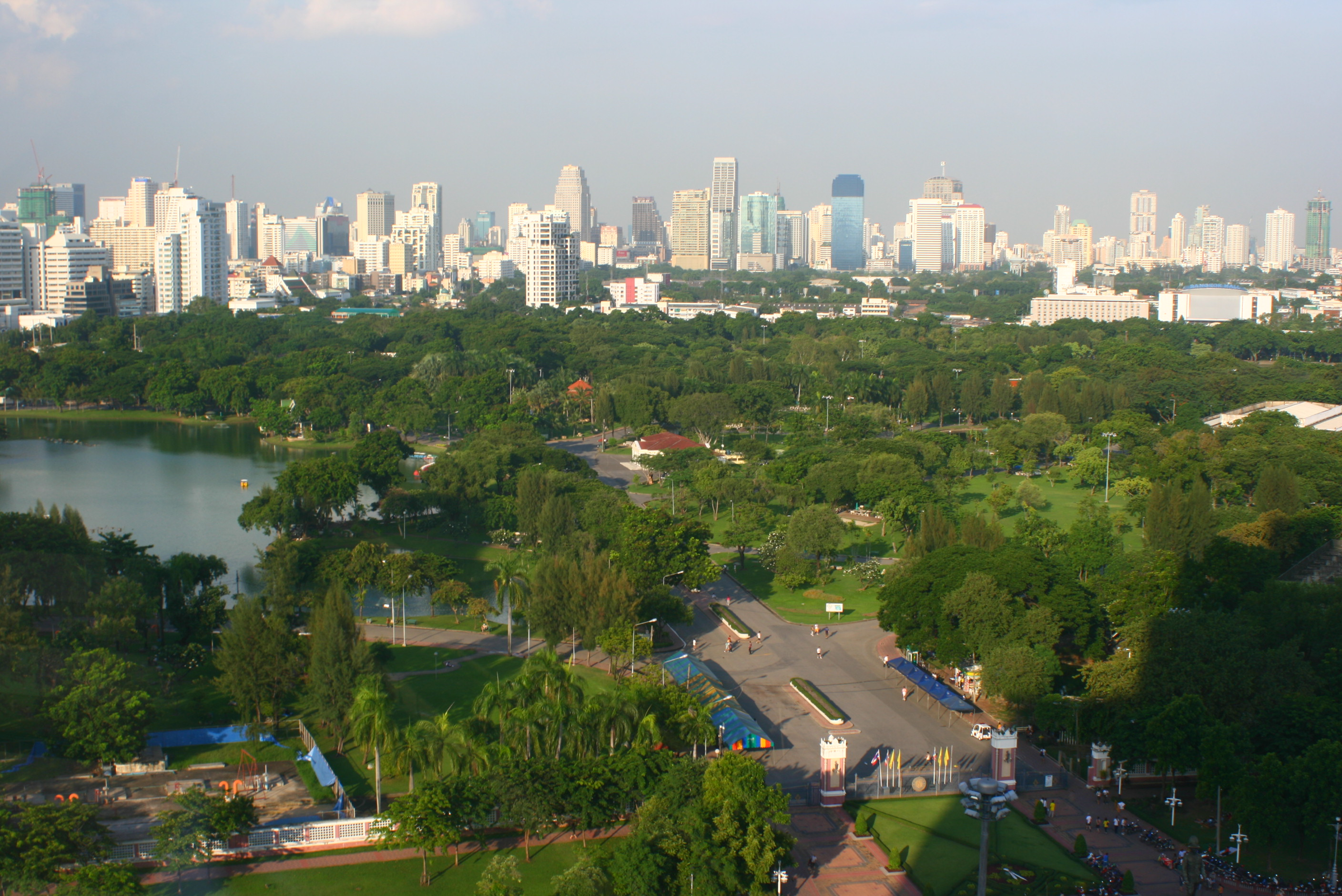 Lumphini Park (View from building)